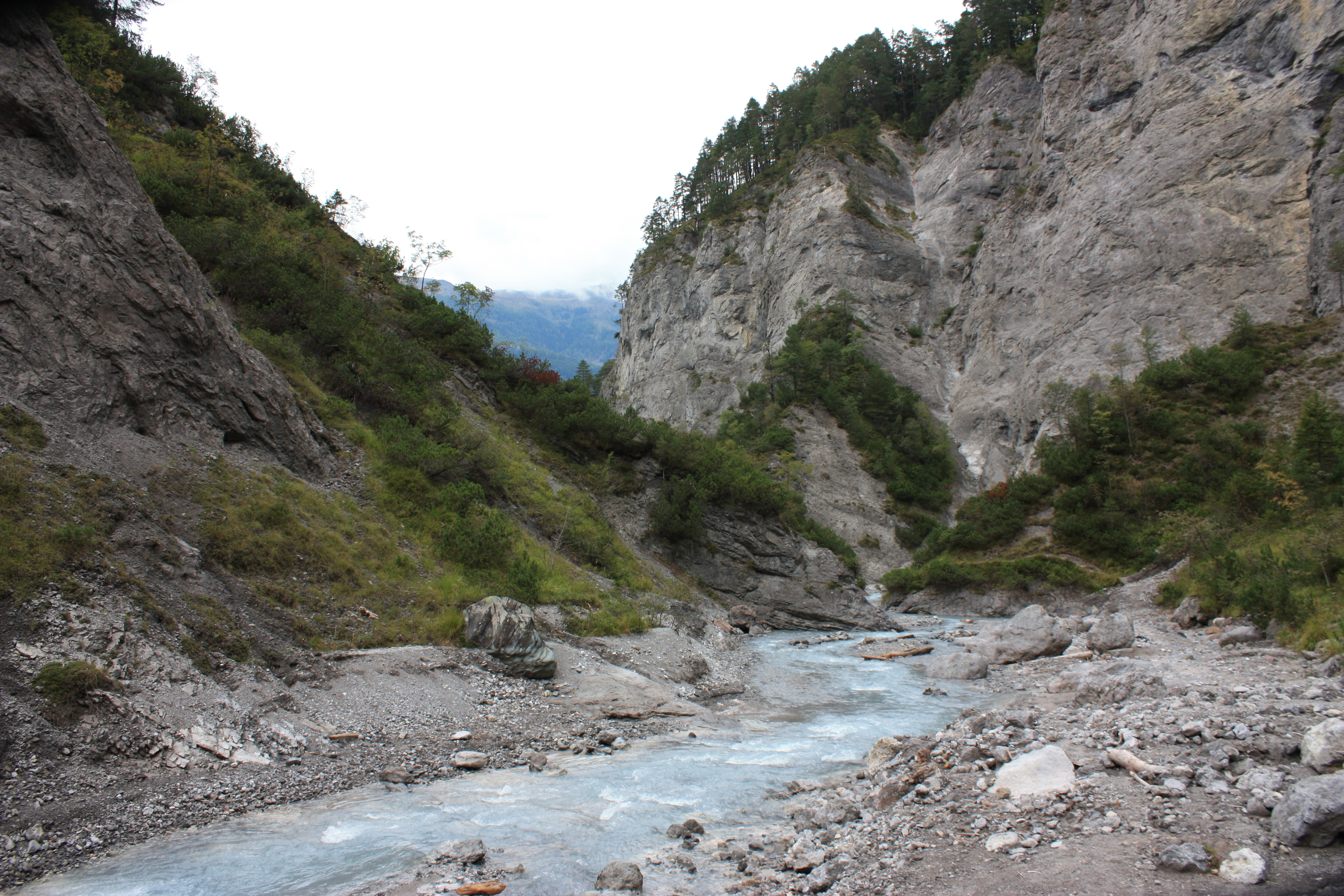 Ochsenschluchtklamm (Ox-gorge) Locality: Feistritz Community:Berg im Drautal